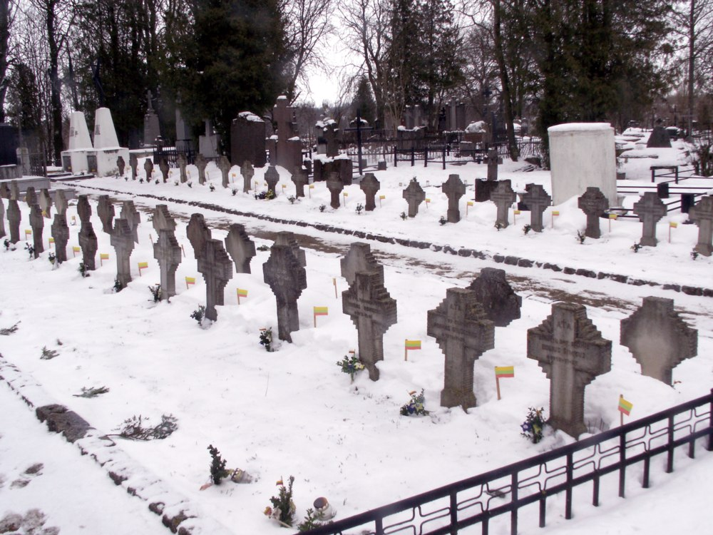 Military cemetery in Šiauliai, Lithuania